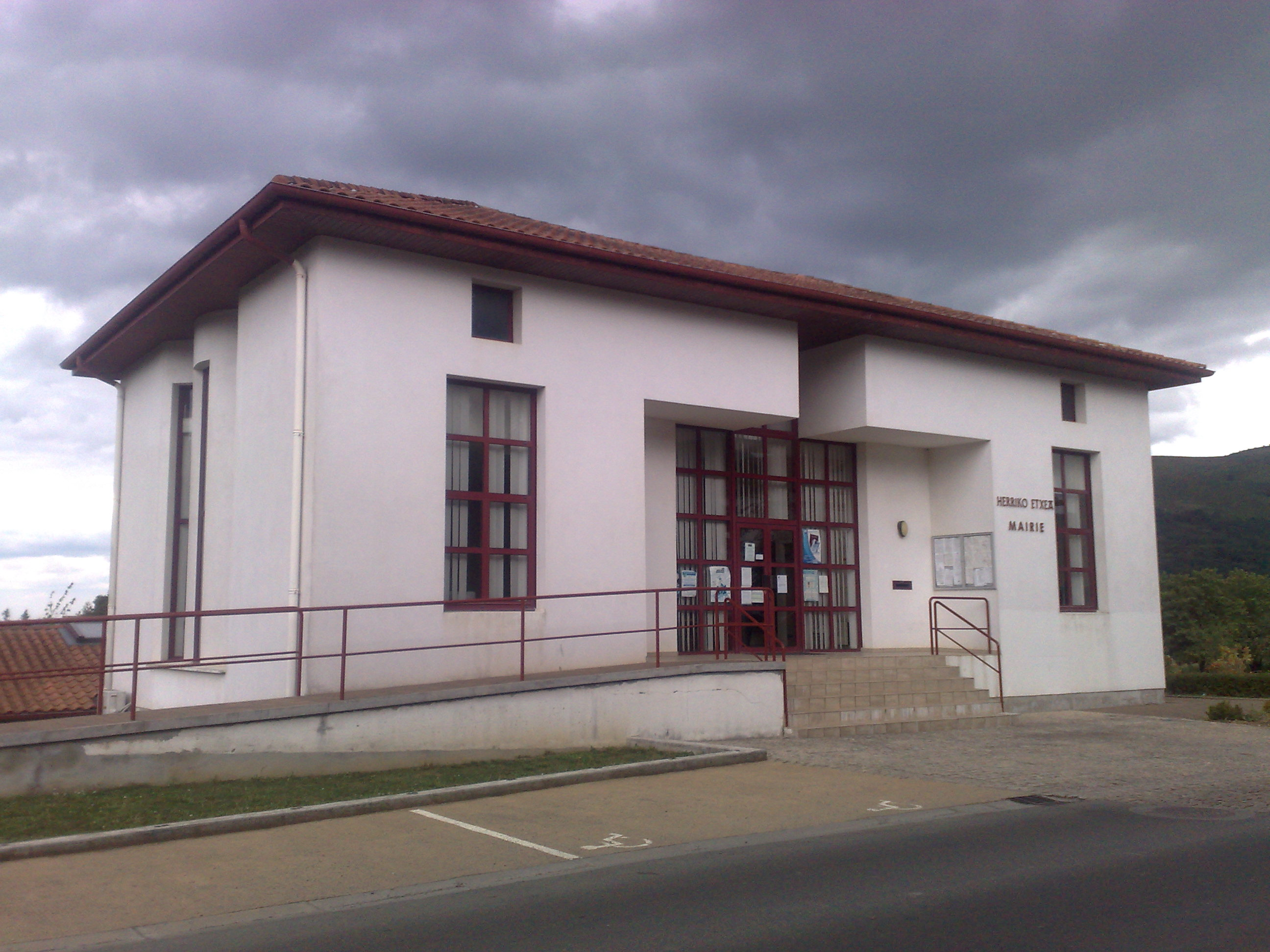 Council hall of Larzabale-Arroze-Zibitze (fr Larceveau-Arros-Cibits) in Larzabale, Lower Navarre, Basque Country.